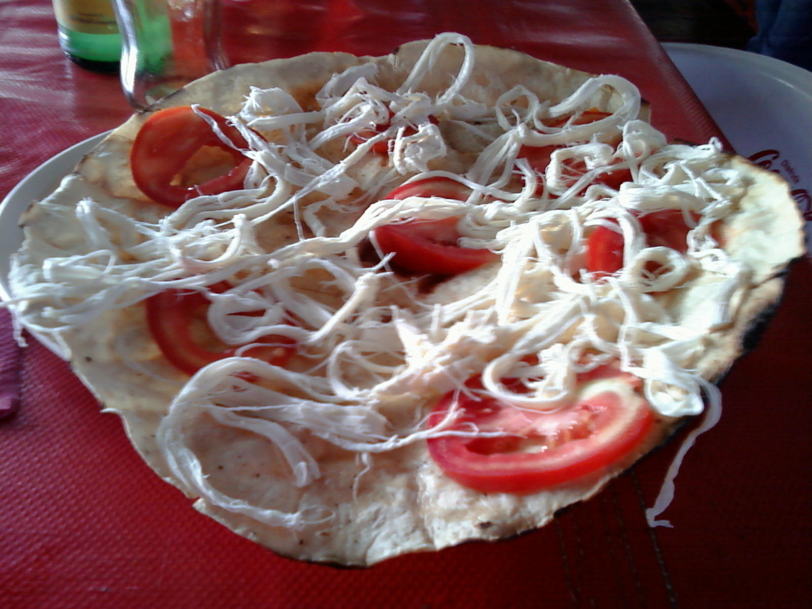 An open-face Tlayuda with tomato and Quesillo Oaxaca.